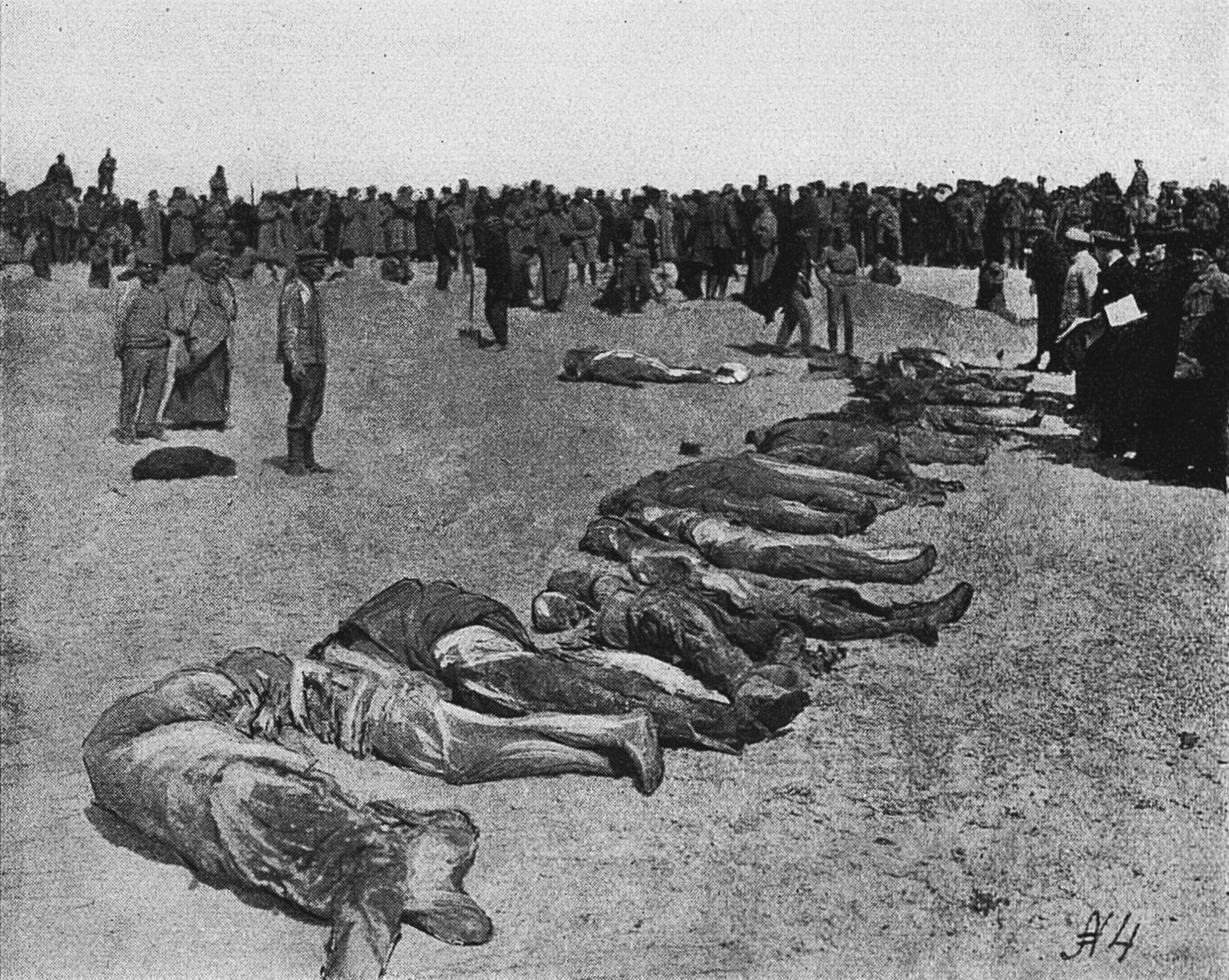 Corpses of victims of the winter 1918 Red Terror in Evpatoria, dumped by Bolshevists executers in the Black sea, but washed ashore by tides and waves in summer days of 1918.